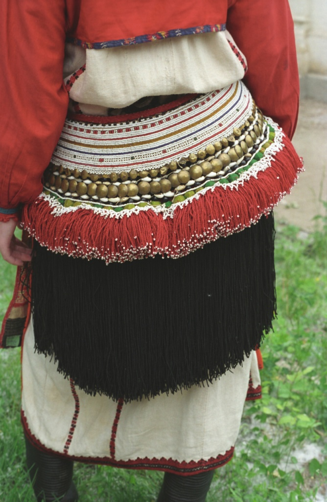 Thigh Decoration (Pulay). Erzya. Simbirsk province. Ardatovsky district. The village of Old Naimans. End of XIX - beginning of XX century.